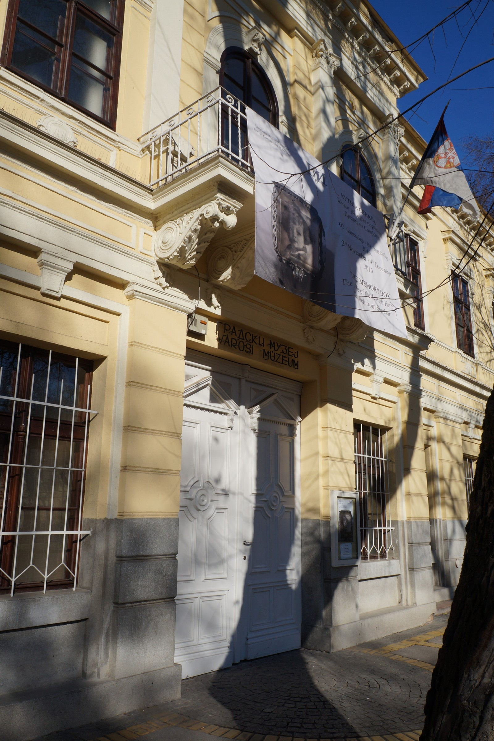 Town Museum of Sombor building